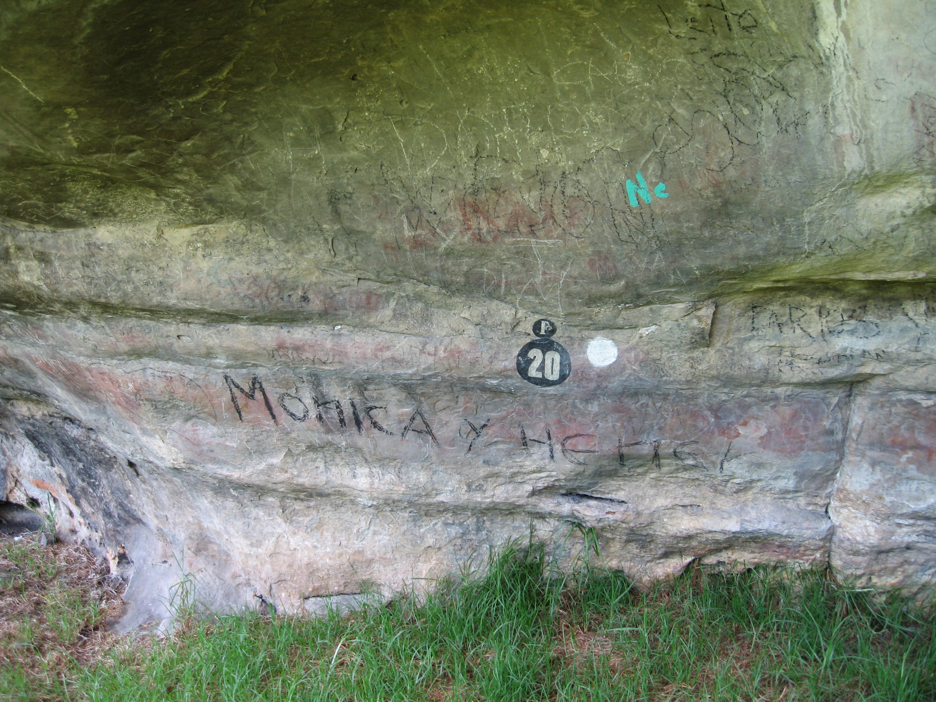 Vandalised pictograph in the archaeological park of Facatativá